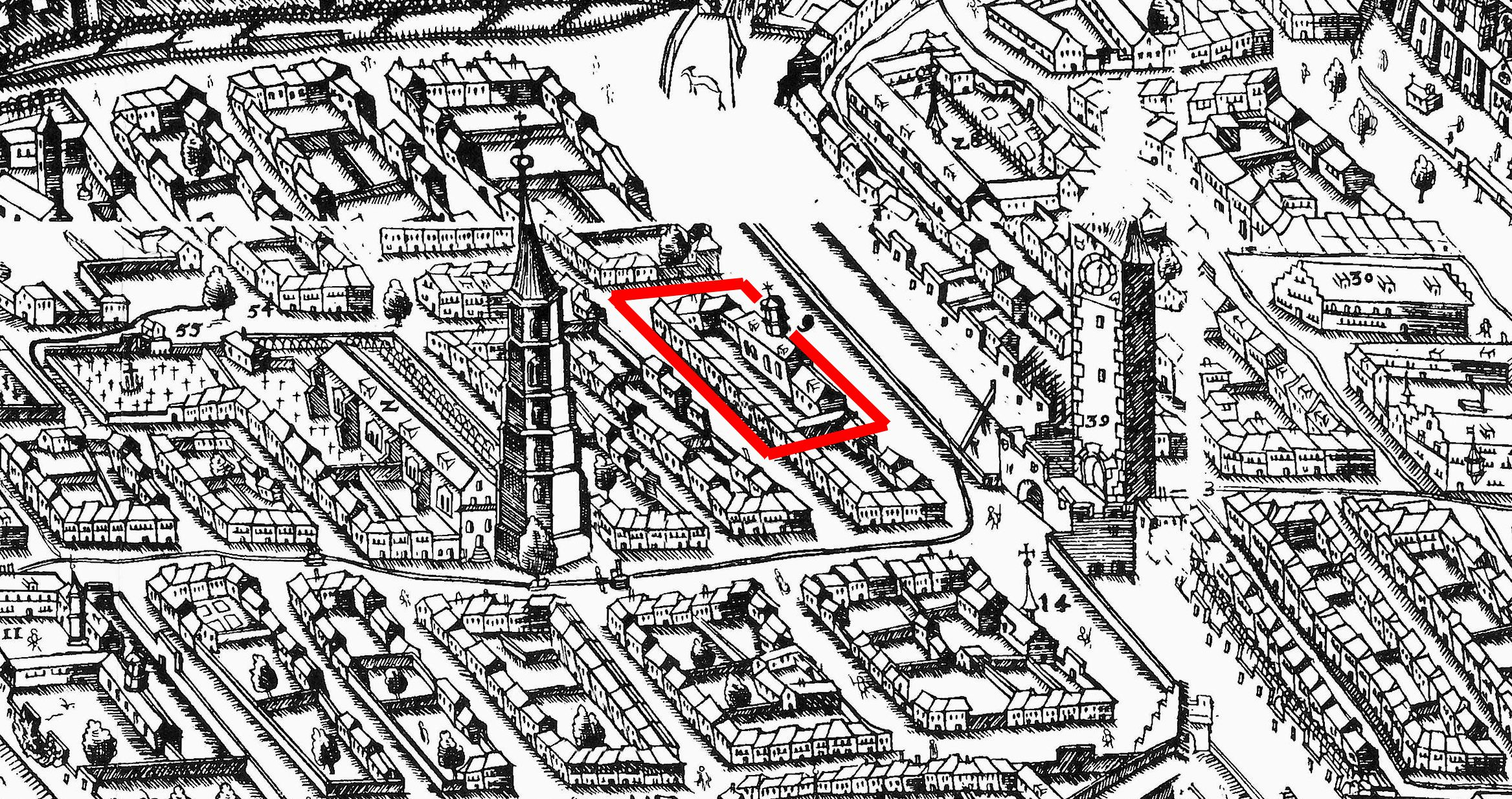 Sickinger map of Freiburg im Breisgau, detail, showing Allerheiligen monastery